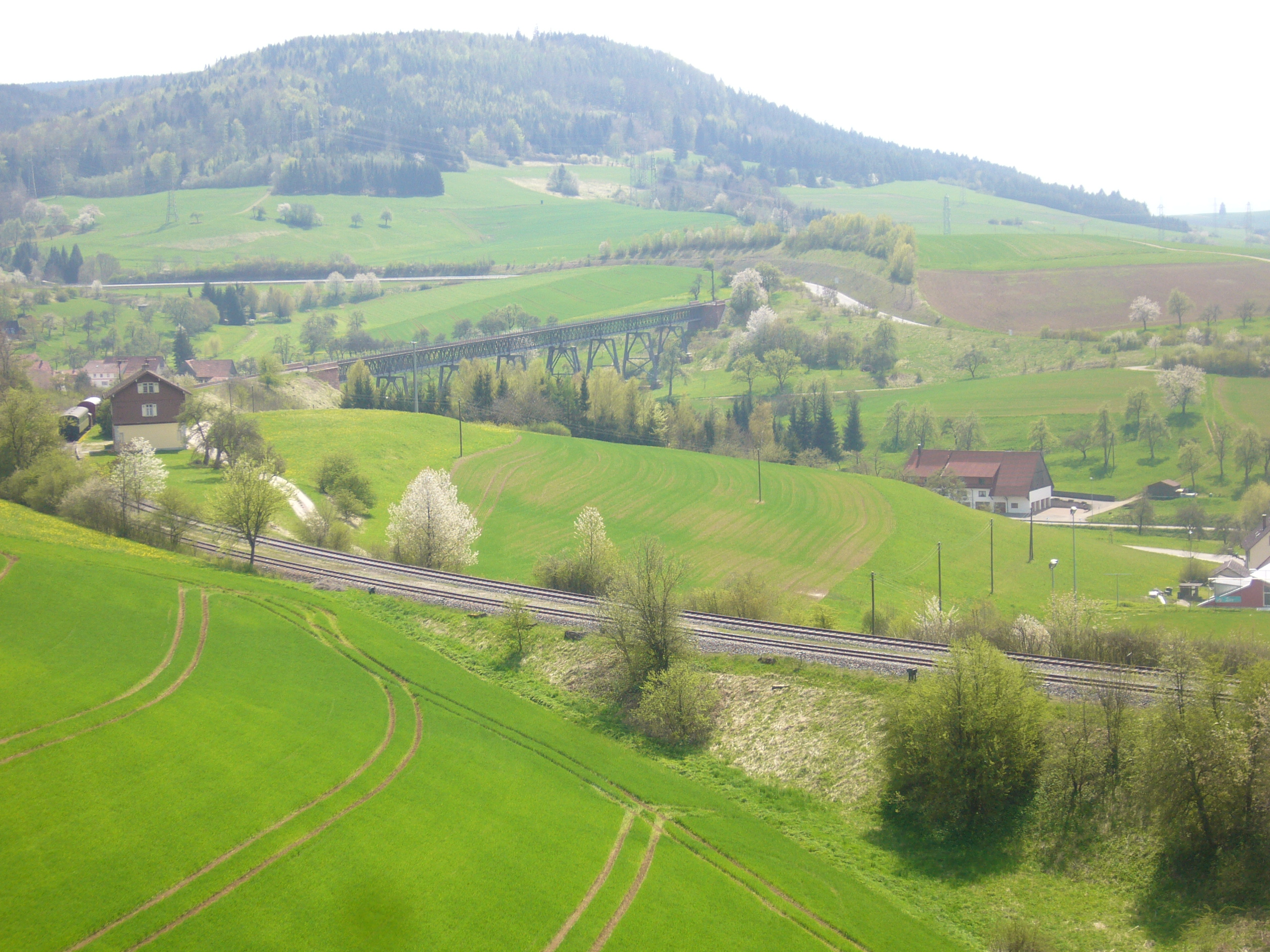 The Wutachtalbahn Railway Line in Germany